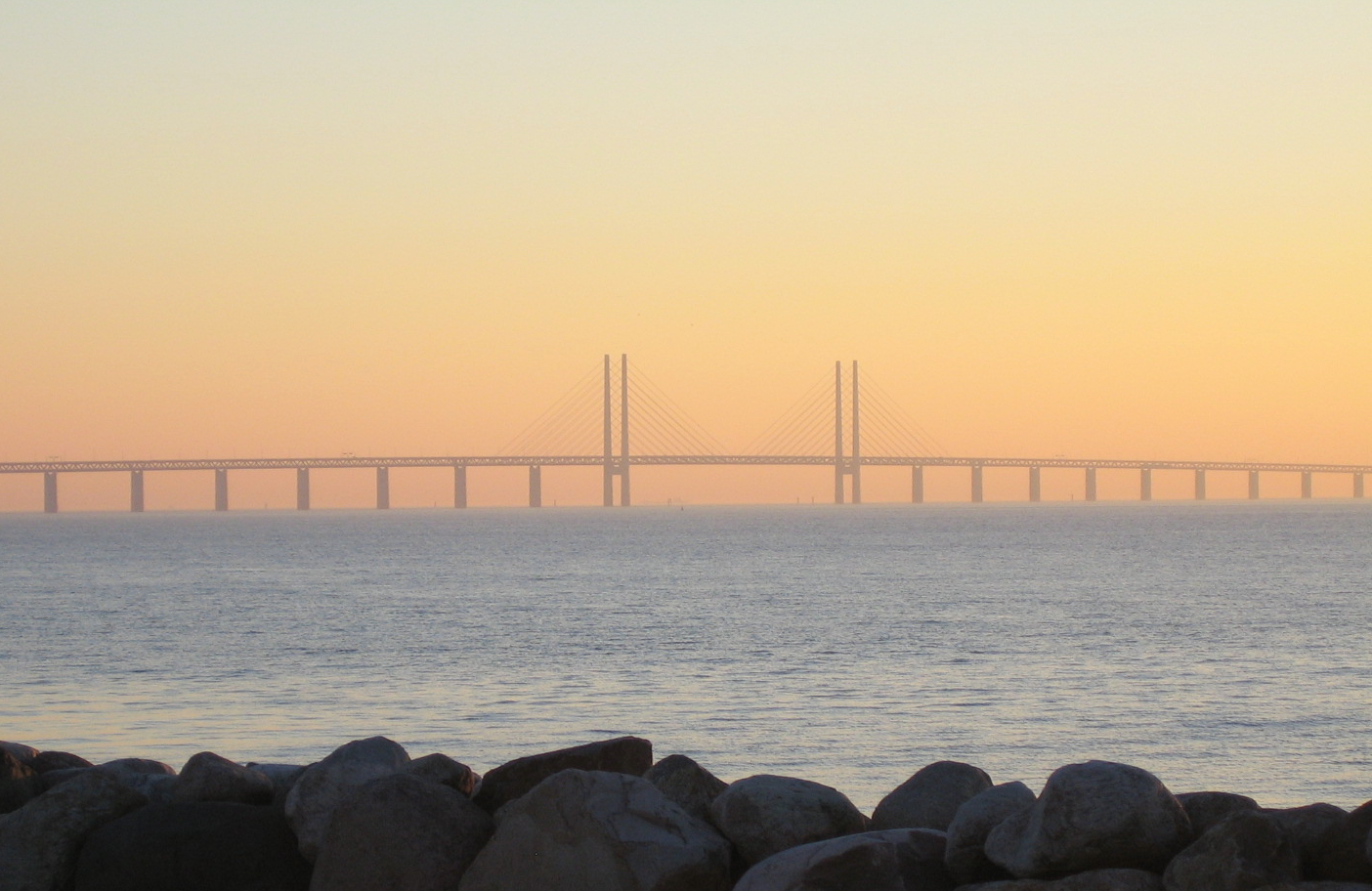 The Öresund bridge at sunset.